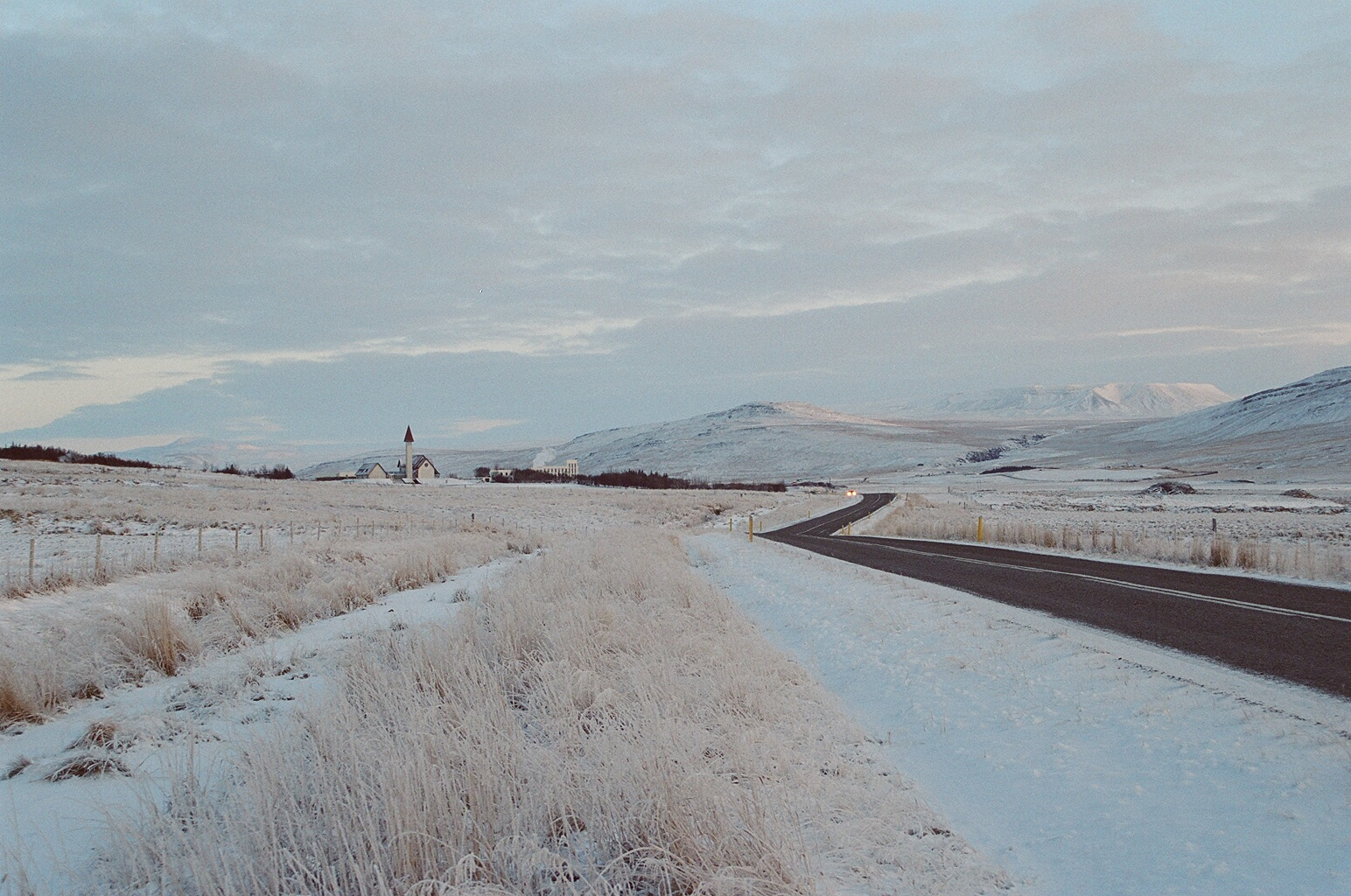 The photo shows the road from Deildartunguhver to Reykholt in the west of Iceland with shield volcano Ok to the right in the background.